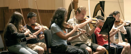 ASCAP and Manhattan School of Music summer campers participate in daily symphonic band rehearsals. Since 1999, the two institutions have partnered with to offer a free music camp for students who attend New York City's public schools.